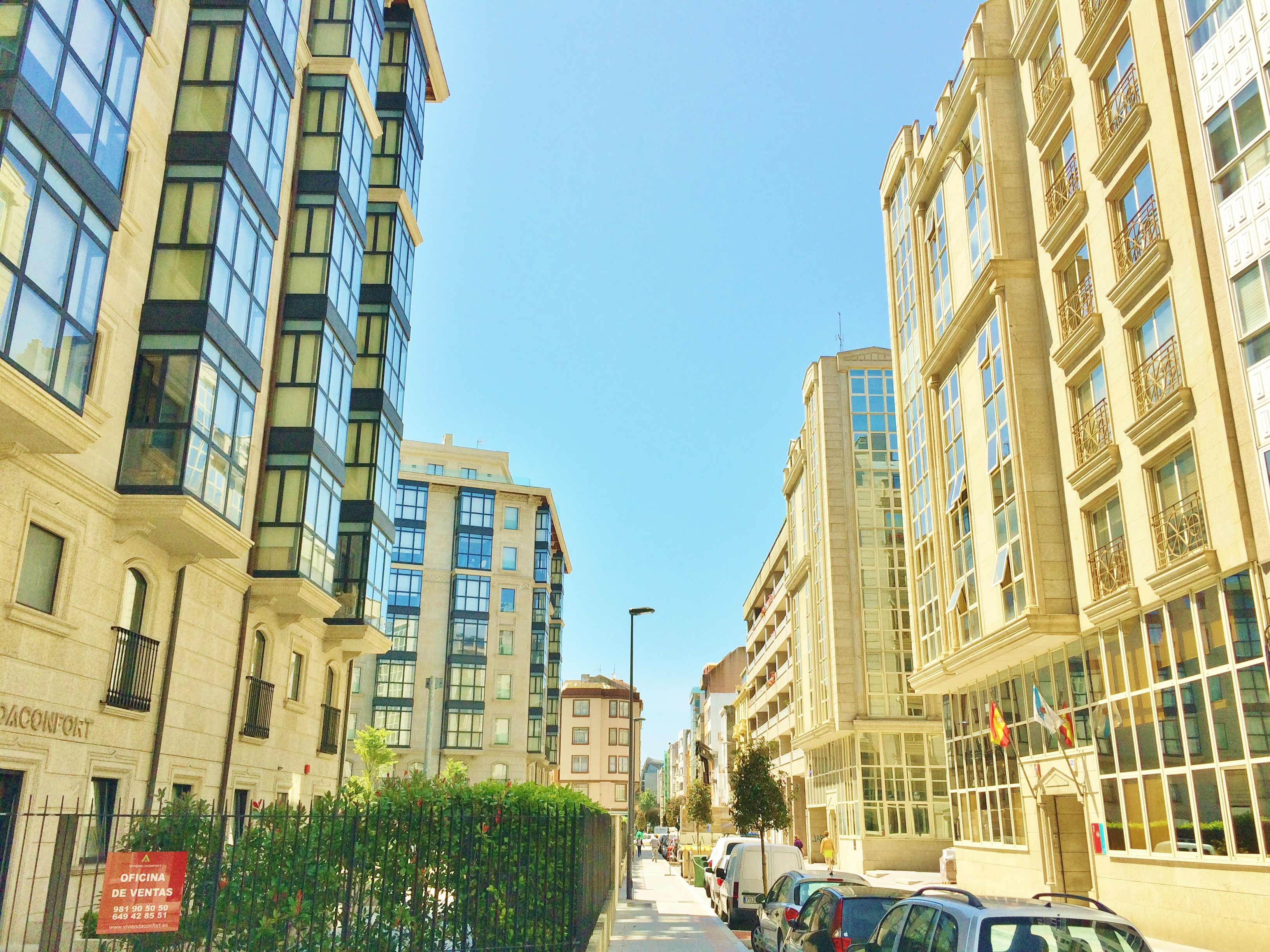 Adelaida Muro St., one of the most expensive streets in Corunna